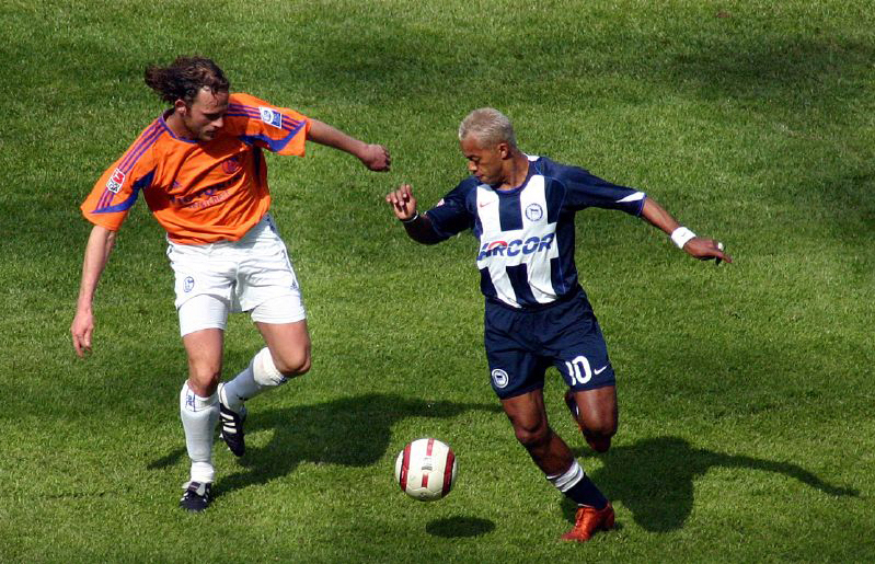 Marcelinho playing for Hertha BSC during a 2005 match.